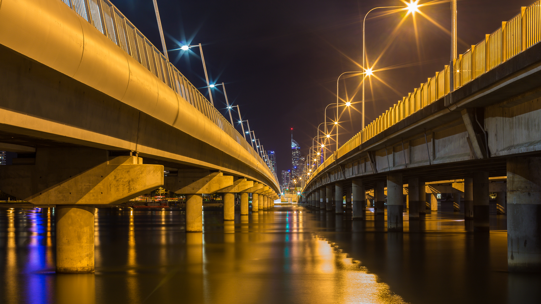 The twin Sundale Bridge over the Nerang River at night. The bridge connects Southport to Surfers Paradise and forms part of the Gold Coast Highway, Queensland.